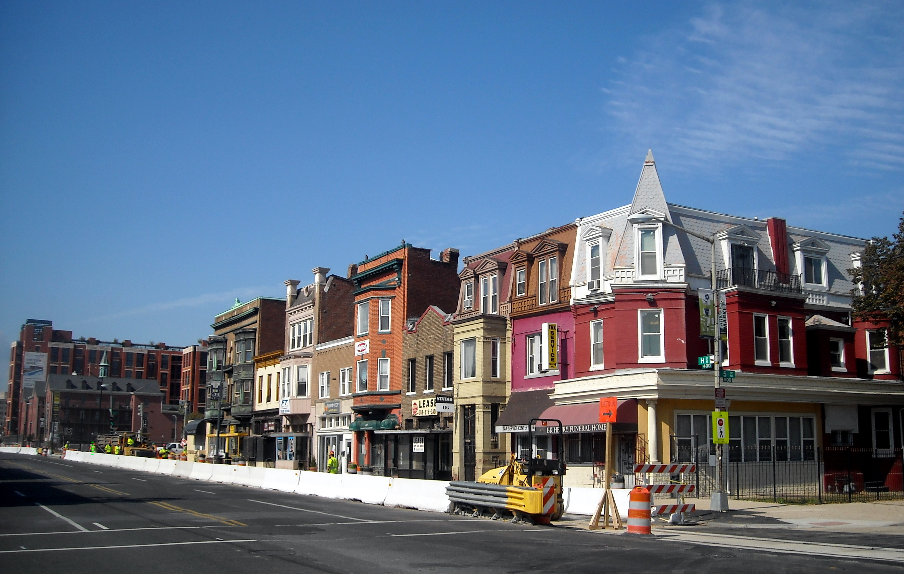 Shops located on the 400 block (north side) of H Street, N.E., in the Near Northeast neighborhood of Washington, D.C. Construction of the DC Streetcar's H Street NE/Benning Road Line is visible in the foreground.